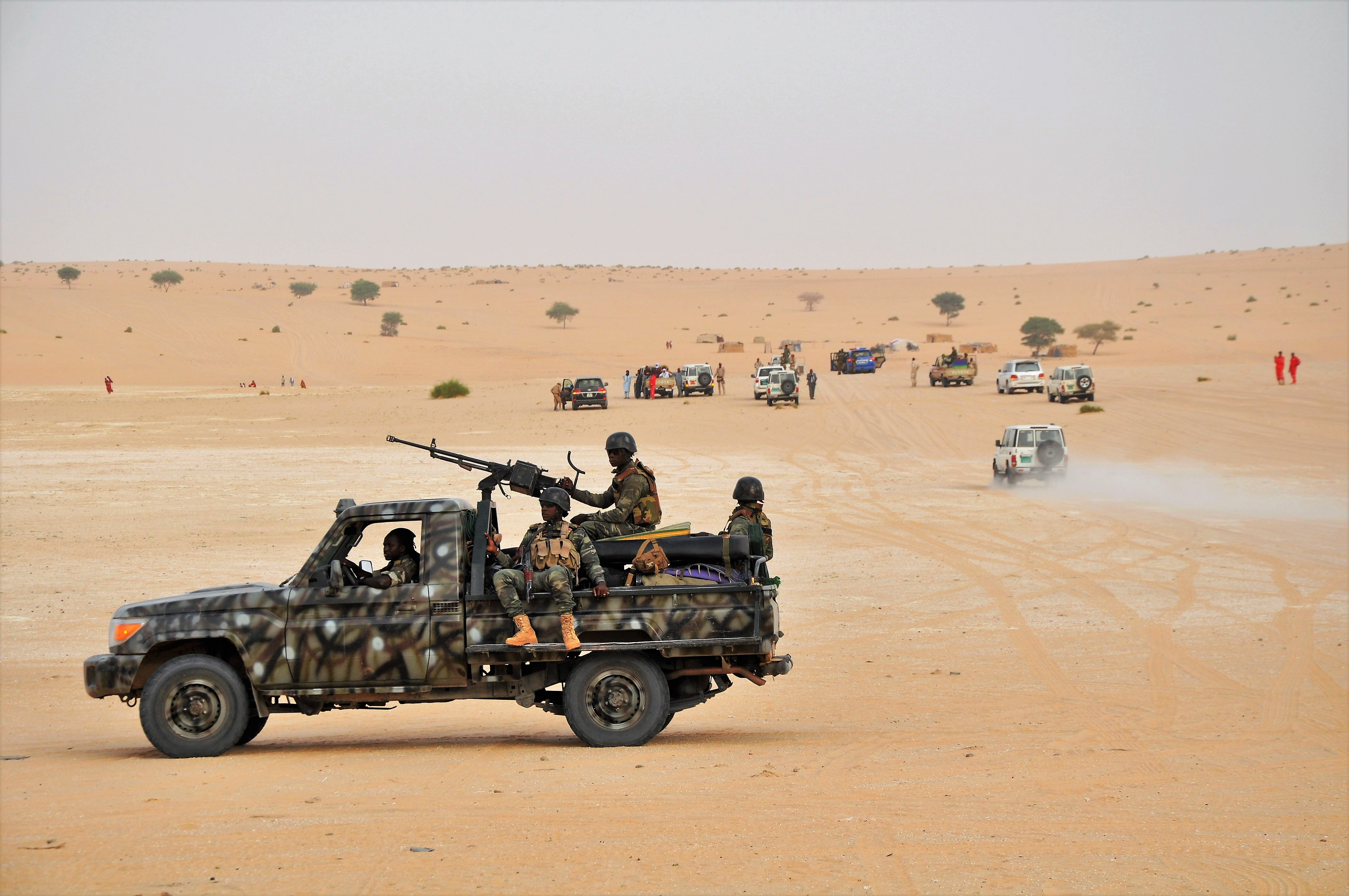 A convoy of vehicles (including security) visiting Melek (Meleck), a village in a remote and arid part of the rural commune of N'Gourti (N'Guigmi Department, Diffa region), in the extreme east of Niger.